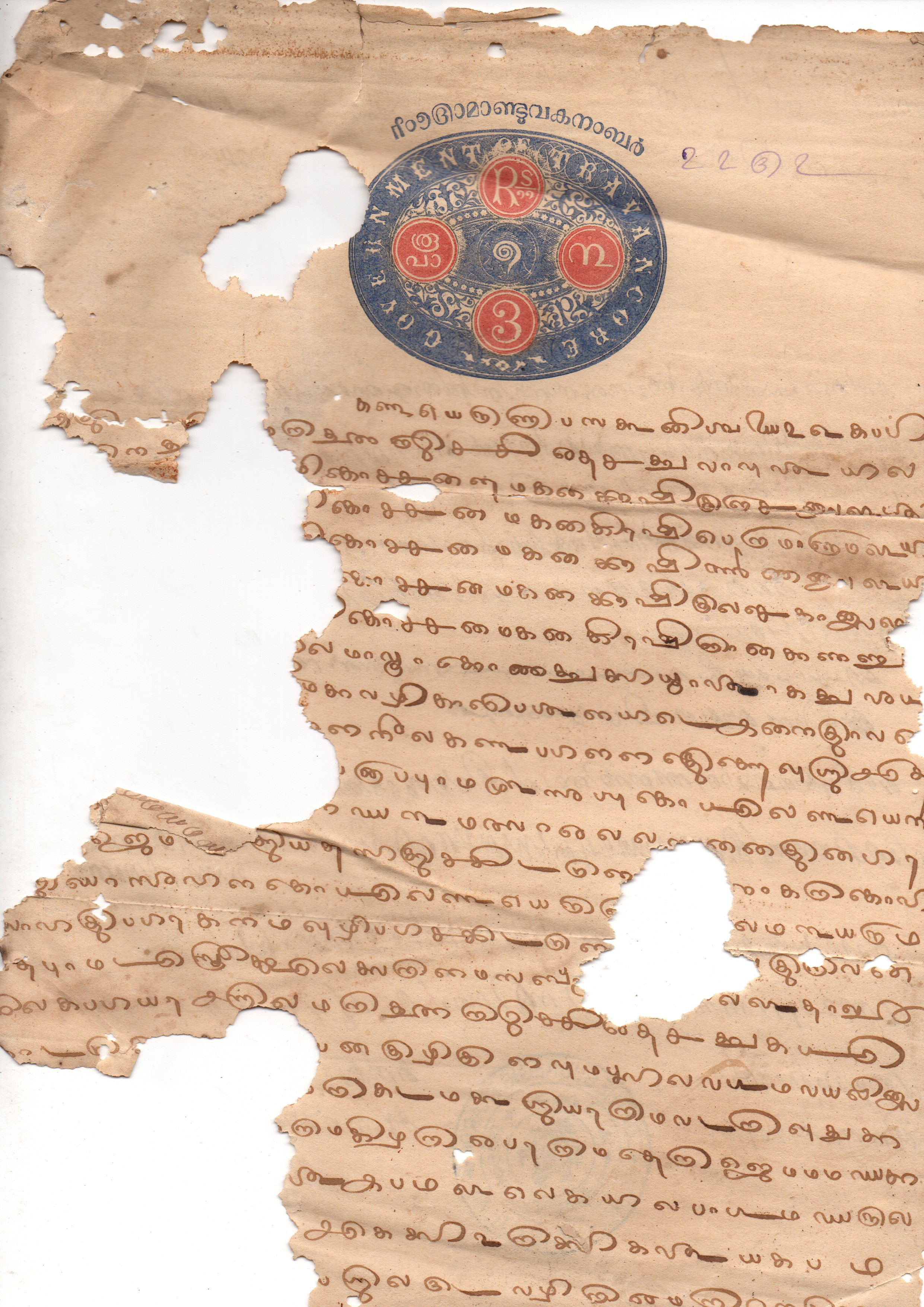 Original Document of ARRAPORAI family partiation